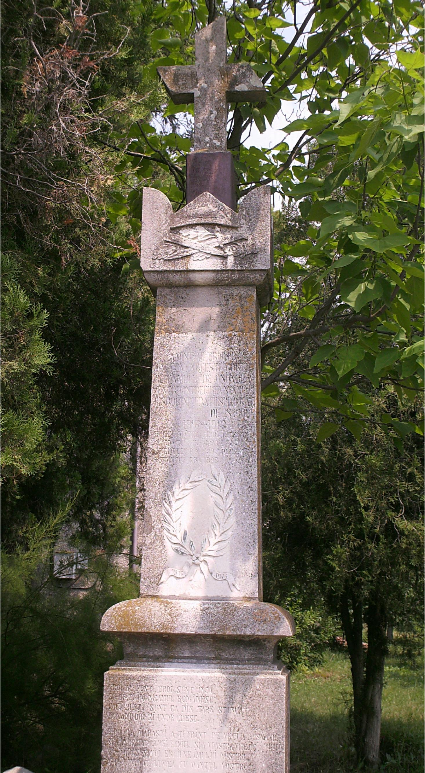 Monumentul eroilor din Pleșoiu, inaugurat la 30 aprilie 1922.